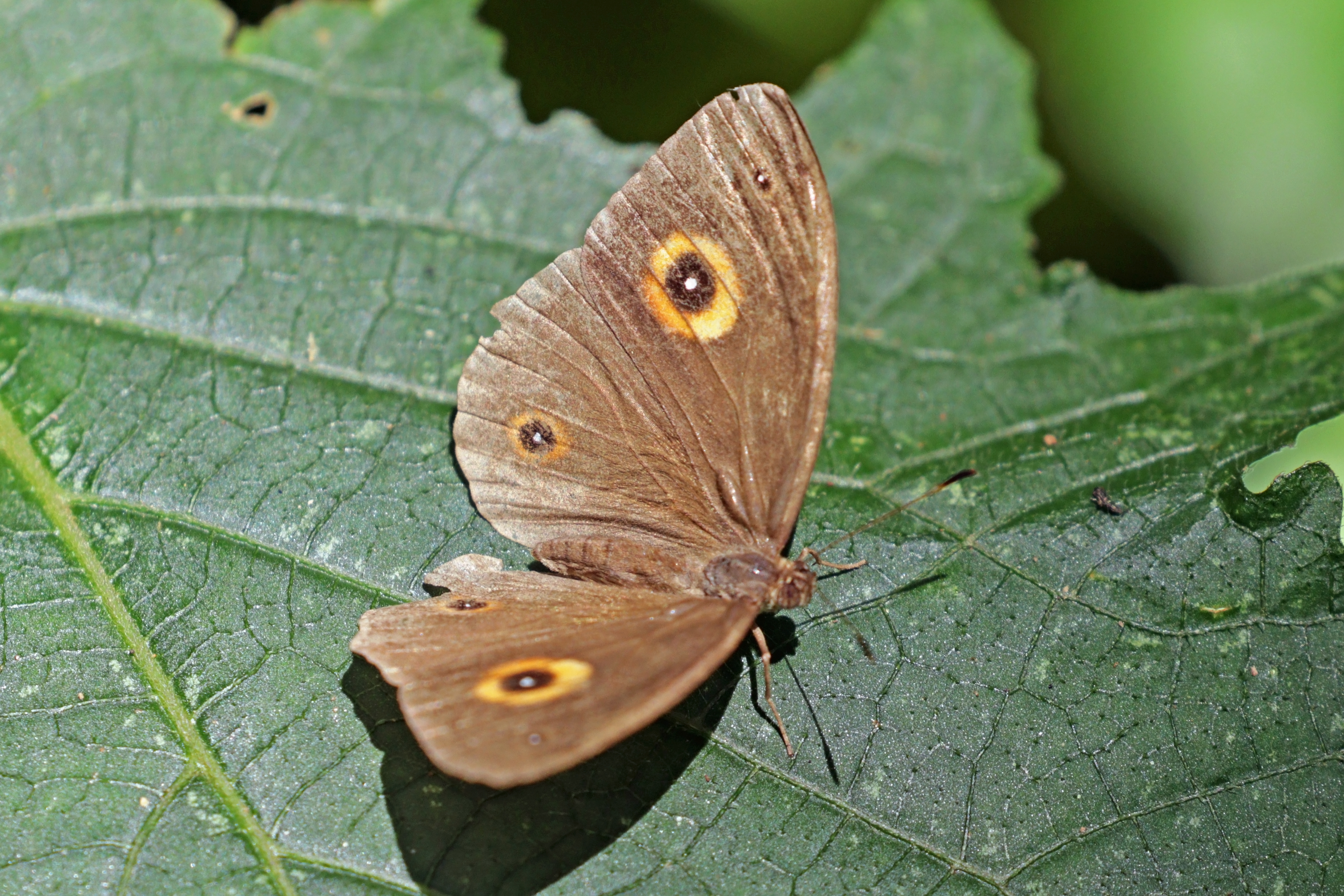 Heteropsis avaratra female, Montagne d'Ambre National Park. Identified by Dr David Lees